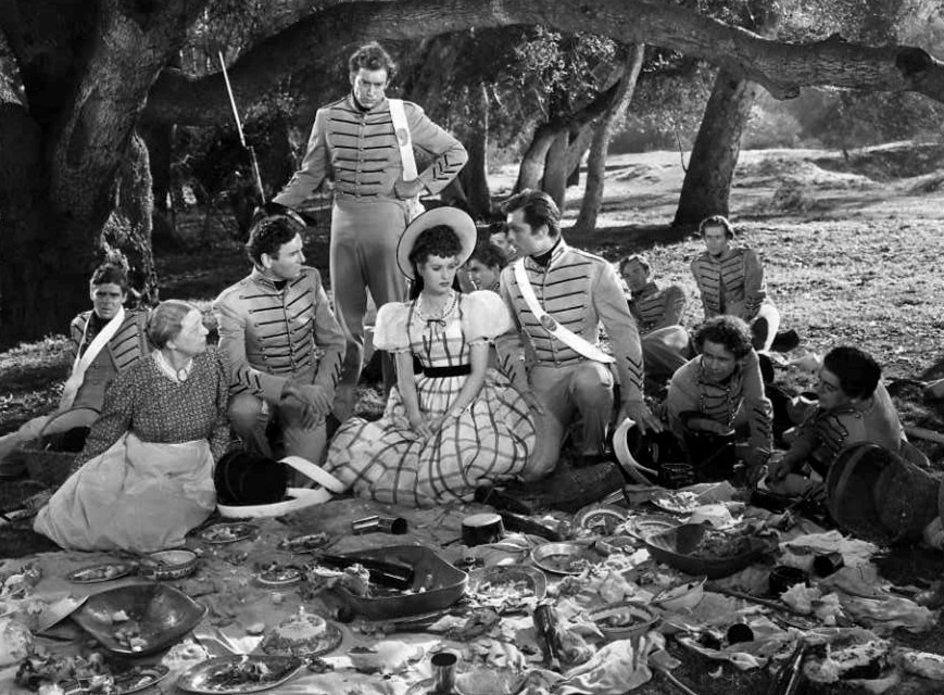 Photo from the 1942 film Ten Gentlemen From West Point; Maureen O’Hara is shown at center.